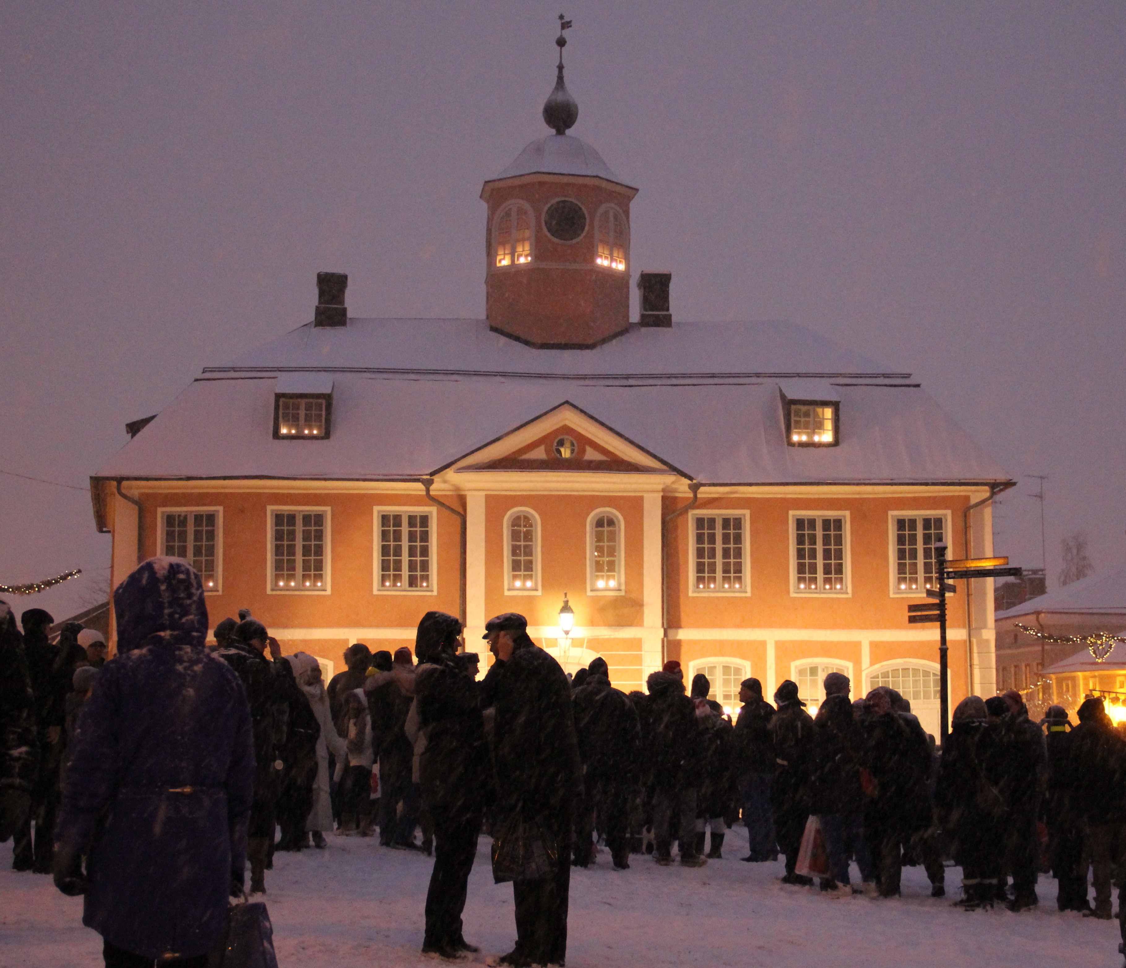 Declaration of Christmas Peace in 2014 in Porvoo, Finland. -The event is about to begin soon in front of the old town hall.